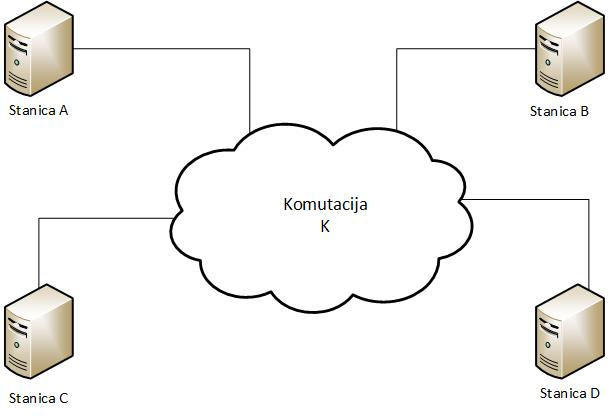 commutation